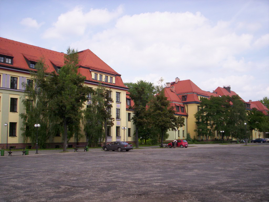 Social Sciences Faculty of the University of Wrocław, Koszarowa street, former Soviet Army barracks. Picture taken on June 22, 2005 by Paweł Dembowski